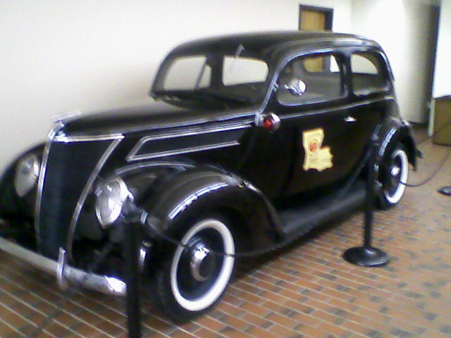 Photo of 1930's Ford Louisiana State Police patrol car